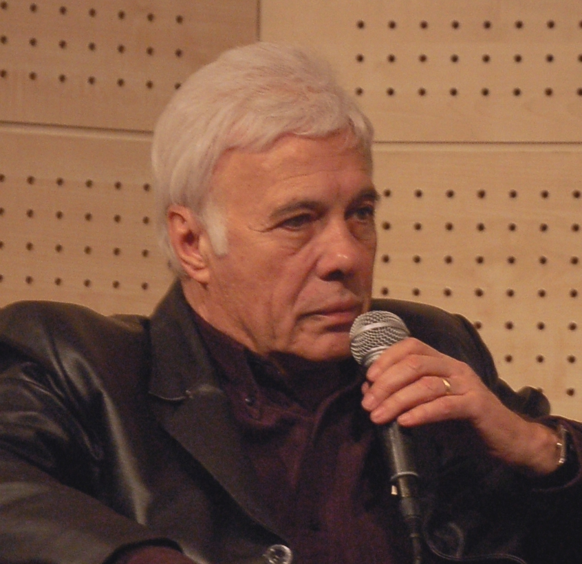 French comedian Guy Bedos in a presentation of his book "Le jour et l'heure" - 19 january 2009